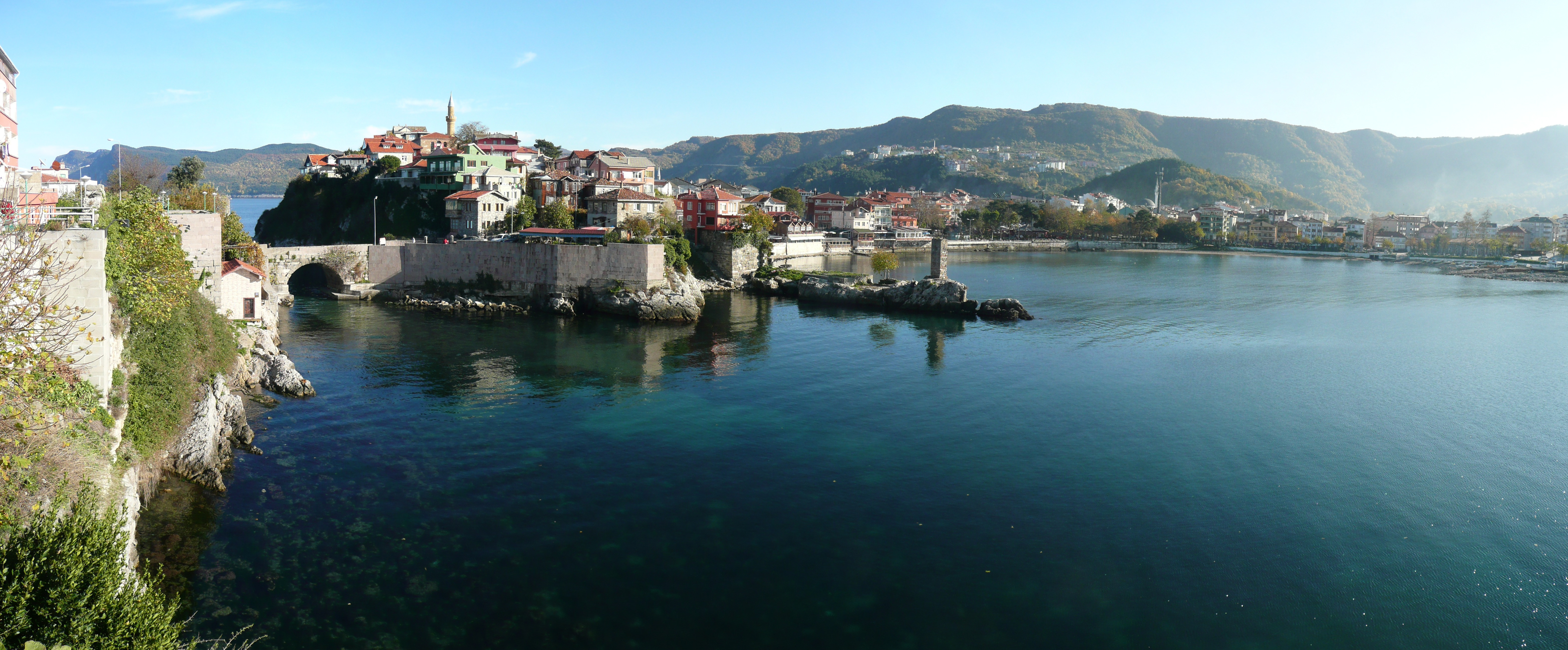 Panorama from Amasra